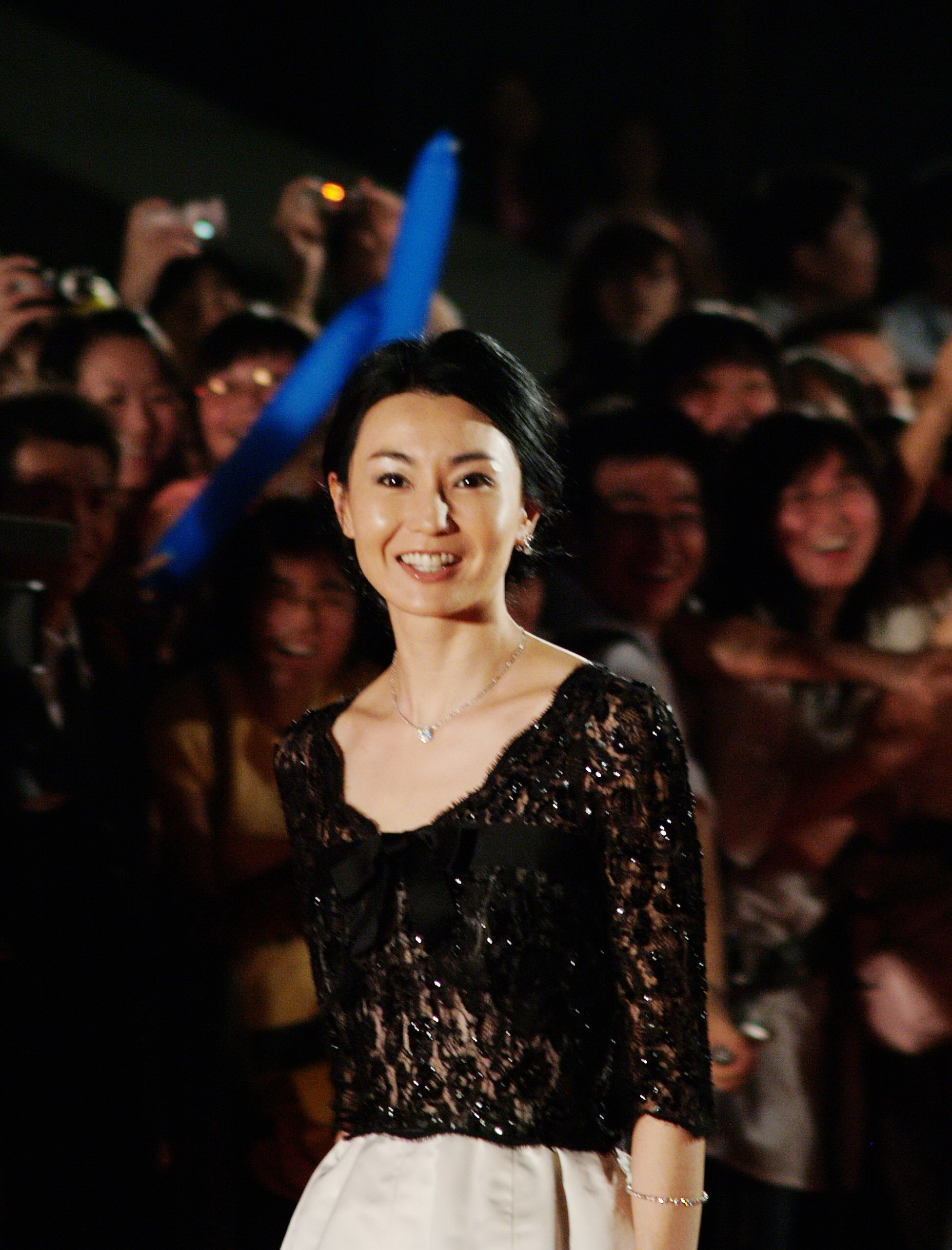 Maggie Cheung